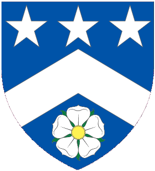 The escutcheon of the armorial bearings of The Lord Moynihan